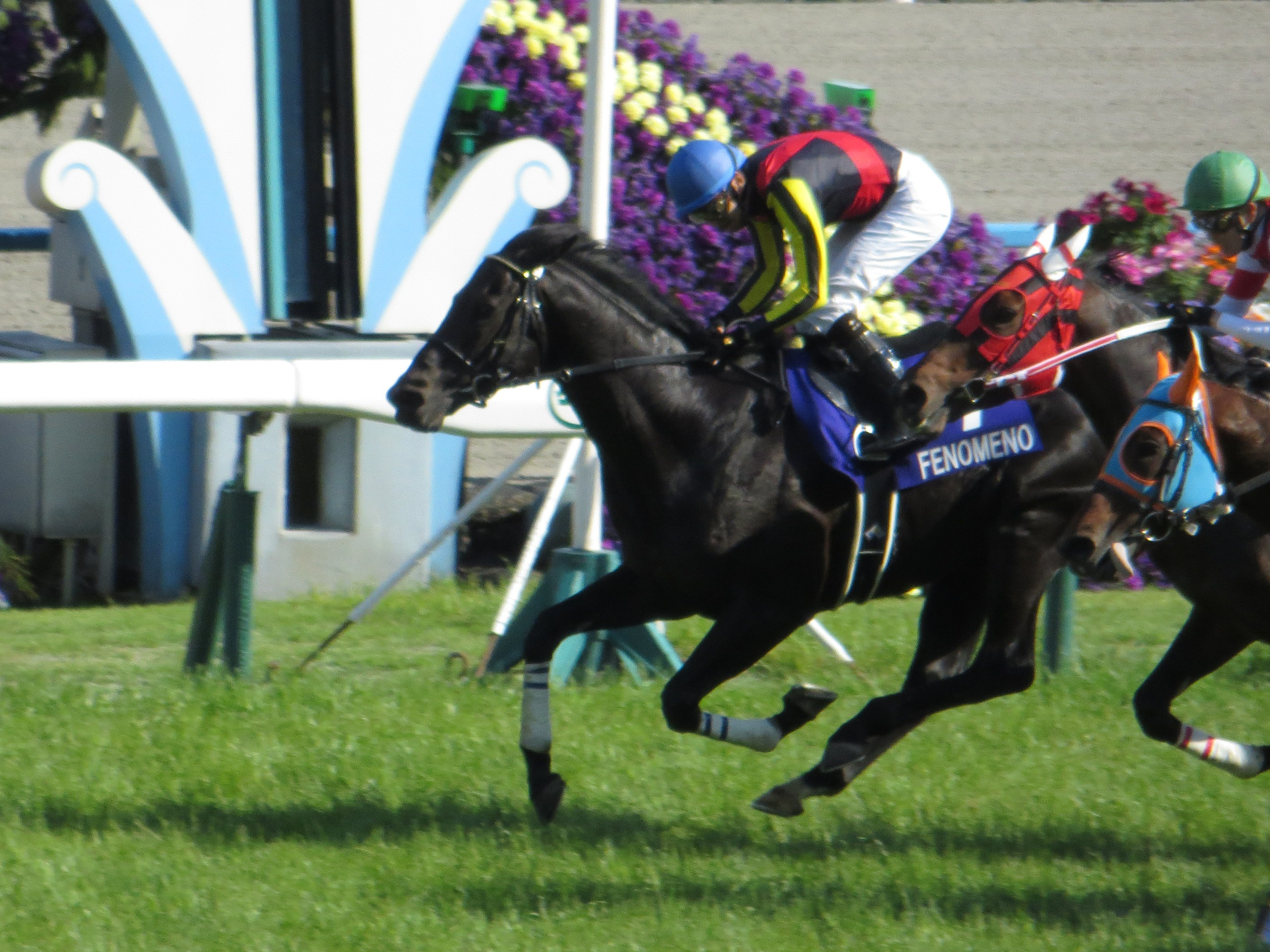 Fenomeno (from 149th Tenno Sho).